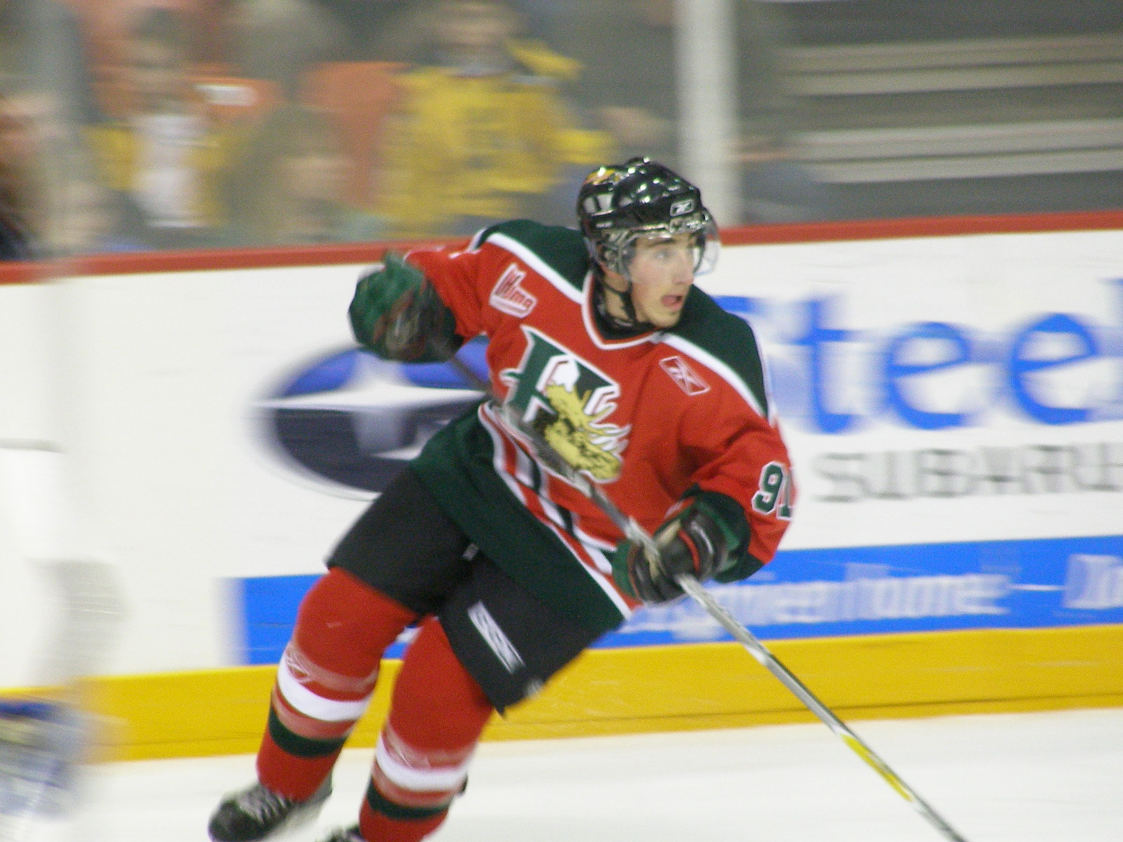 Mooseheads centre Brad Marchand plays during game: Saint John Sea Dogs at Halifax Mooseheads (January 20 2008)